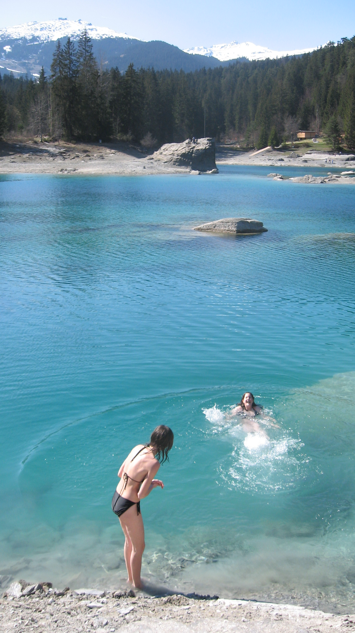 Caumasee lies within a rockslide debris zone, thus its level changes during the year corresponding underground water flow. In April the lake is on low level and therefore warming up early (may reach 16 degrees by End of April, which is remarkable)